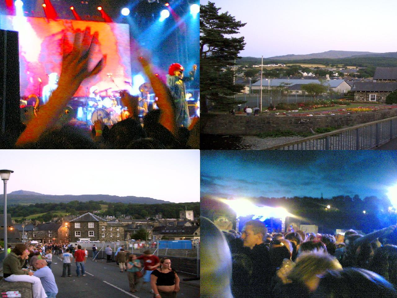 Composite image of Sesiwn Fawr 2005